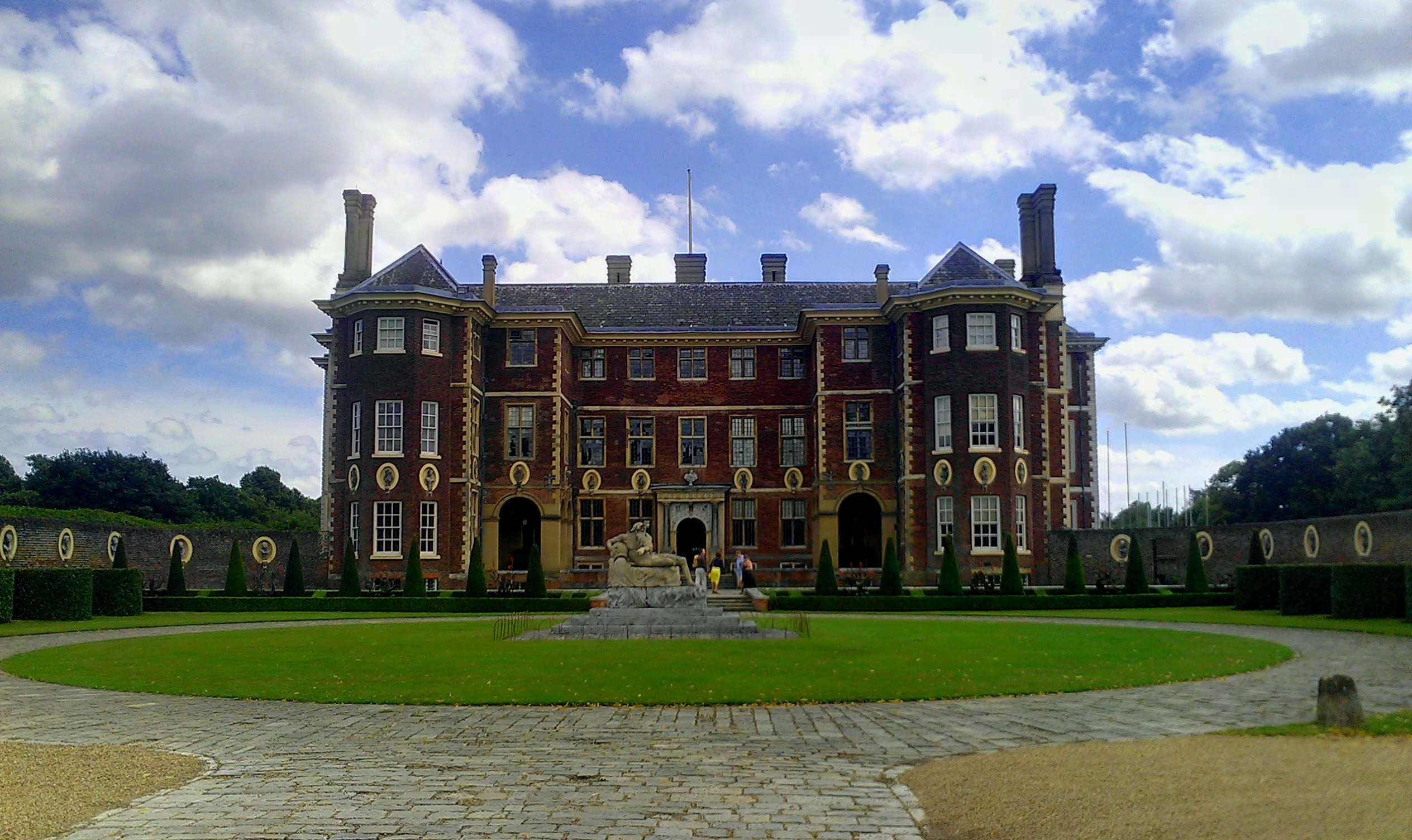 Front of Ham House in Richmond, West London.